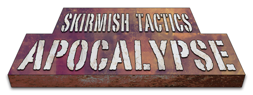 Skirmish Tactics Apocalypse Logo